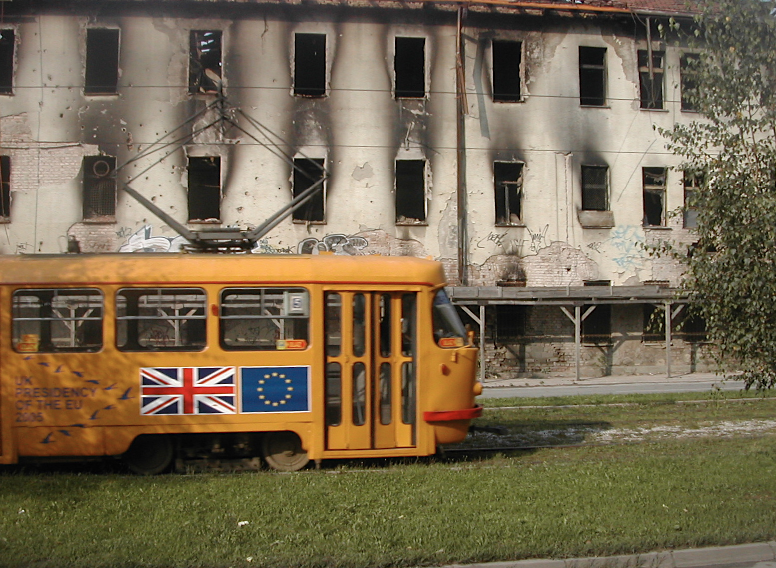 A donated tram in front of burned out buildings in Sarajevo. The tram on line 5 must have been on detour.